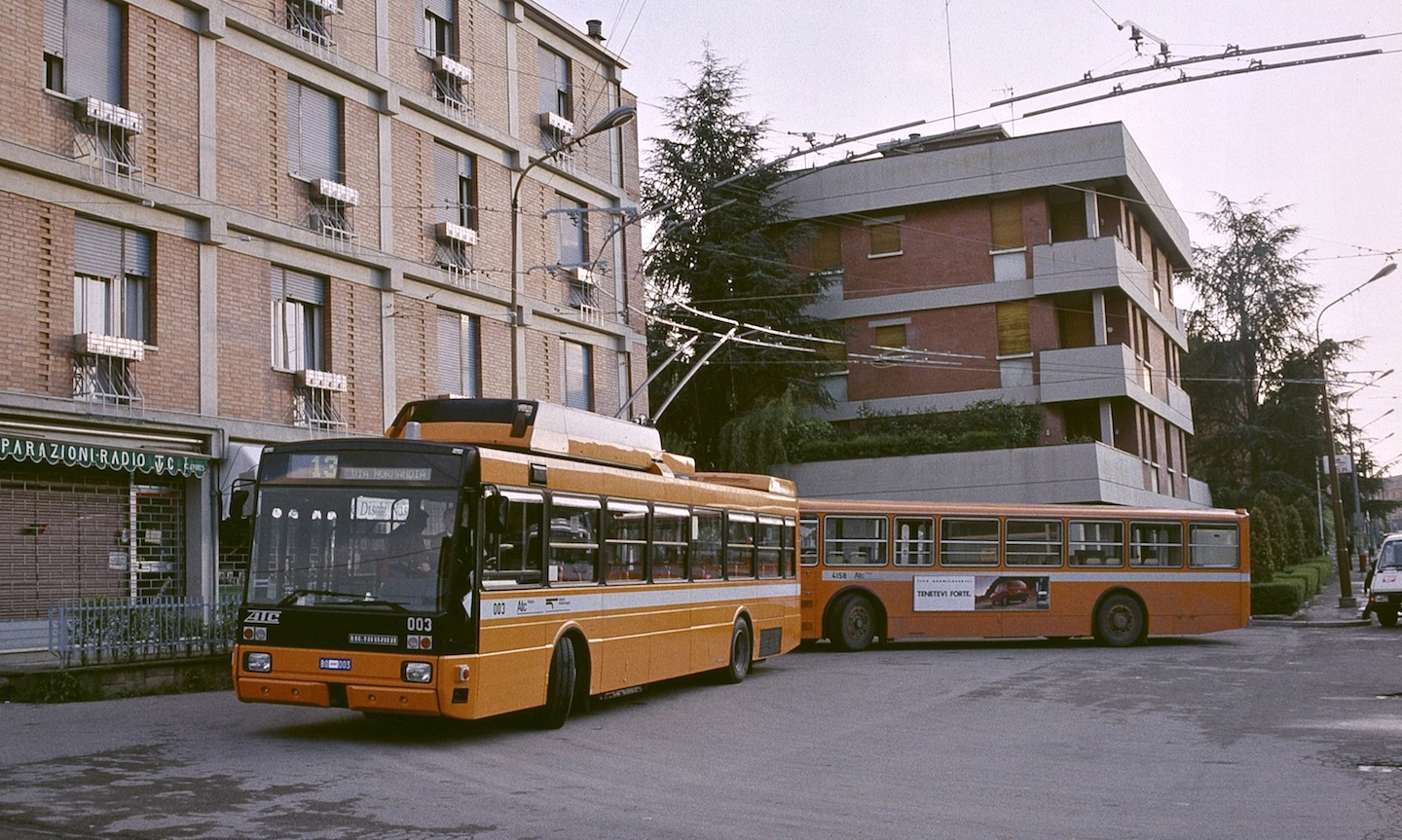 Bologna trolleybus 003 was built in 1990 by Menarini, one of 10 such vehicles purchased by Bologna's public transit agency, ATC. It is pictured laying over at route 13's Ponte Savena terminus, in San Ruffillo, in 1991. Diesel bus 4158 is behind the trolleybus, also running on route 13. In September 2007, route 13 was extended (within San Ruffillo) to Via Pavese, and the Ponte Savena terminus became no longer used.